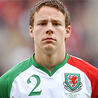 Racecourse Ground, Wrexham, Wales. Chris Gunter makes his full international debut for Wales against New Zealand